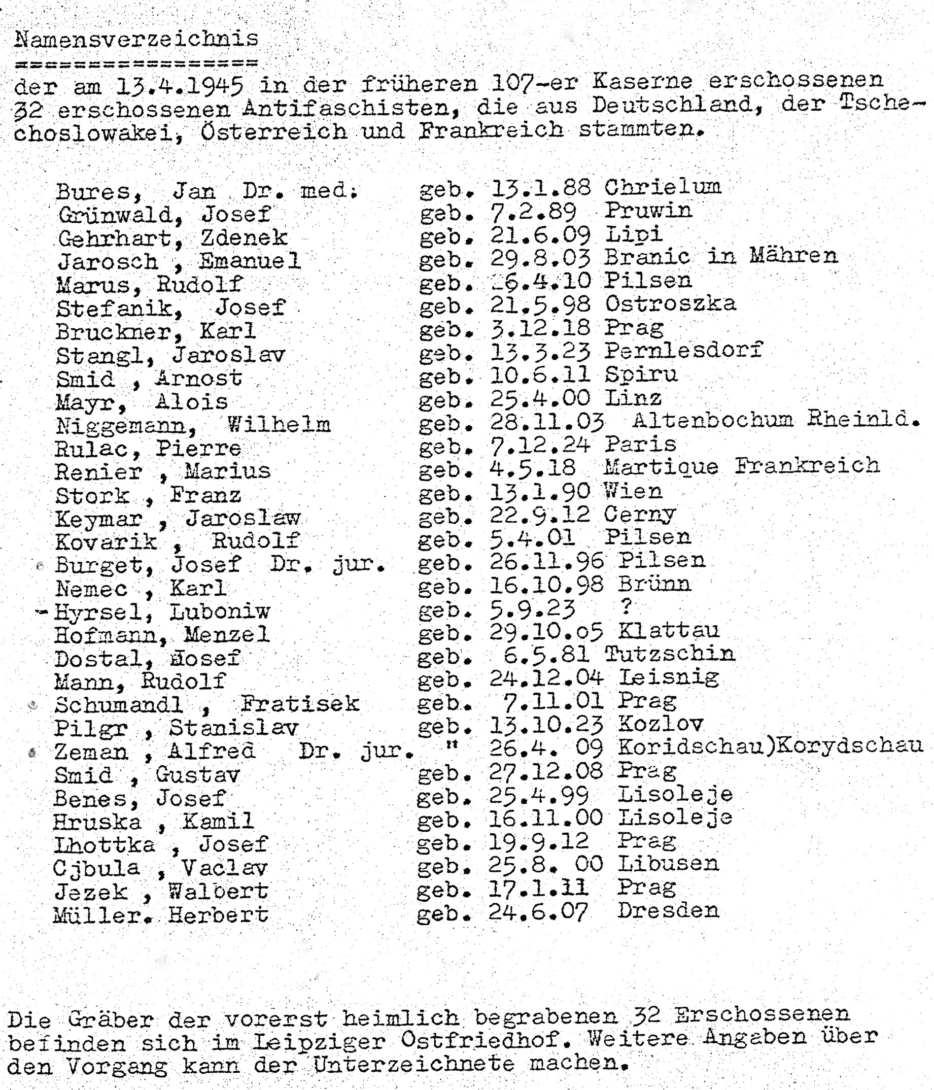 The list of murdered April 13. 1945 in Leipzig - barracks Gholis